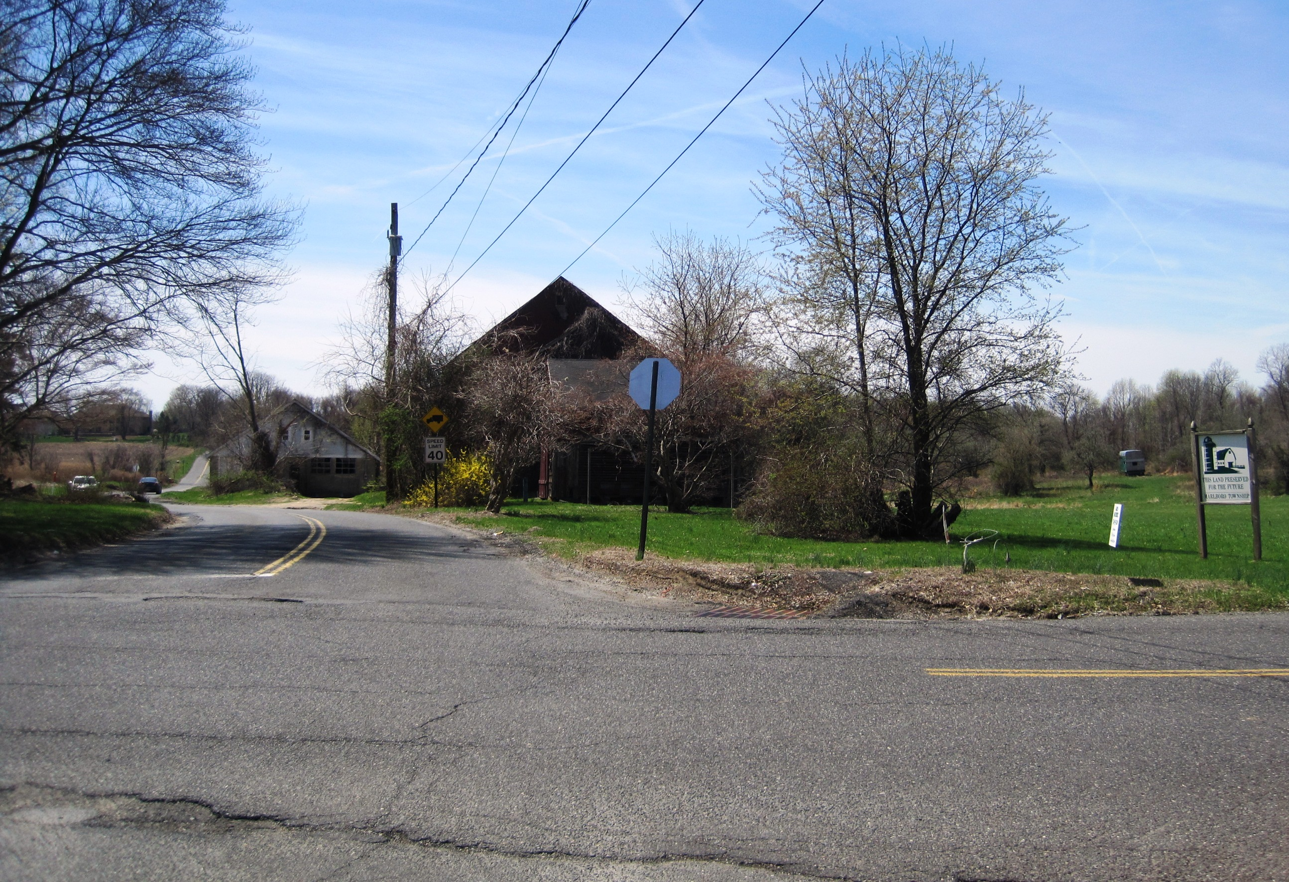 Photo of Smocks Corner, New Jersey, an unincorporated community within Marlboro Township. Photo taken on Pleasant Valley Road at its intersection with Conover Road.